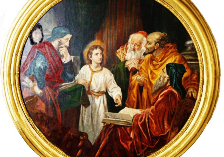 Greek painter Spiridon Gazis (1835-1920) : "Christ and rabbis", 1884